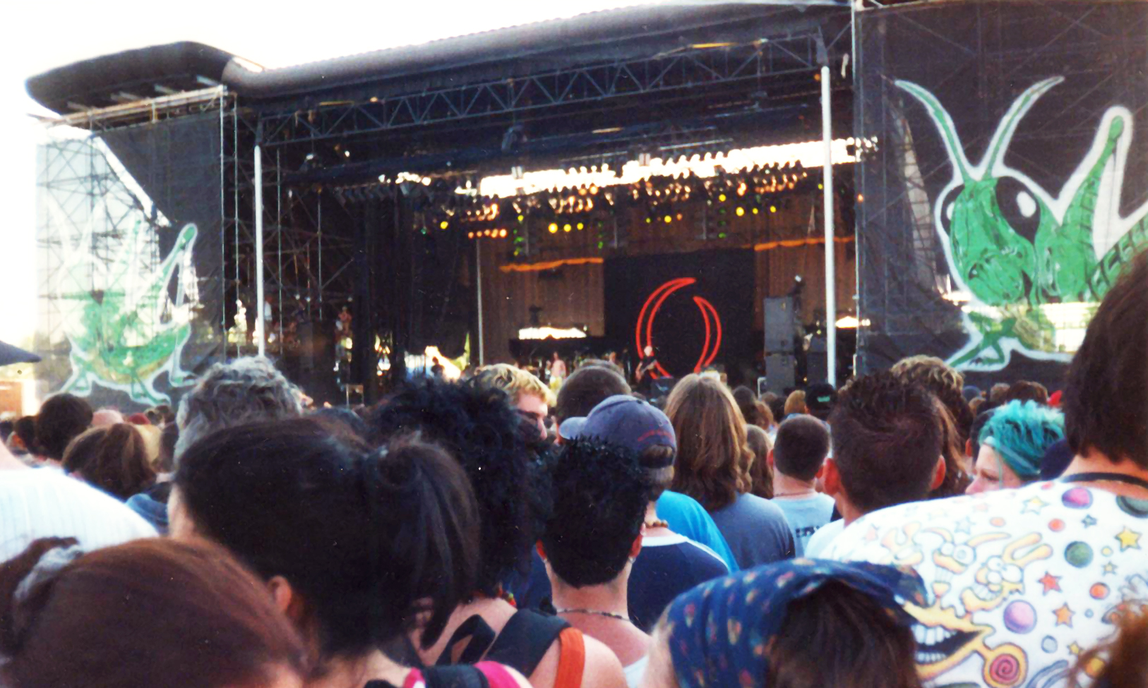 Summersault festival at Parc des Iles, Montreal, 12 August 2000. View of the scene during A Perfect Circle.